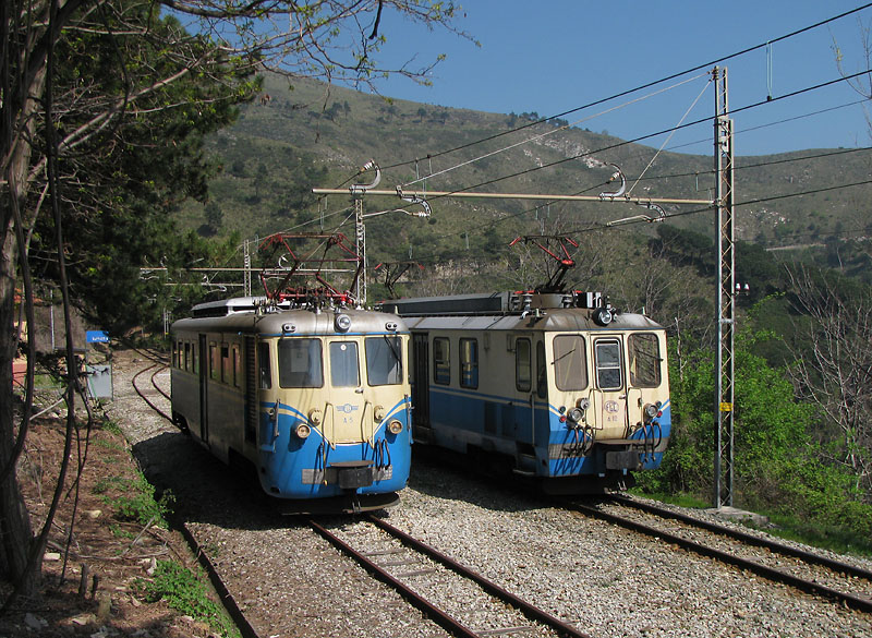 Electromotive A5 (from Spoleto Norcia Railway) and A10 railing on Ferrovia Genova Casella